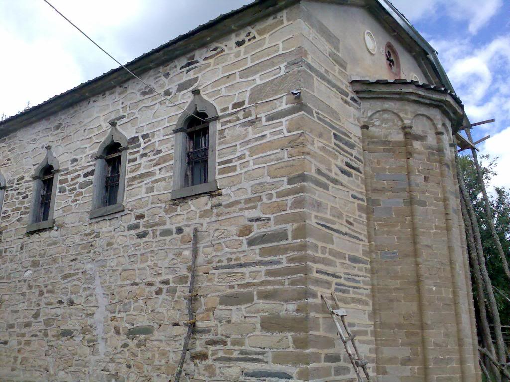 Village of Tomino selo, Poreche region, Republic of Macedonia